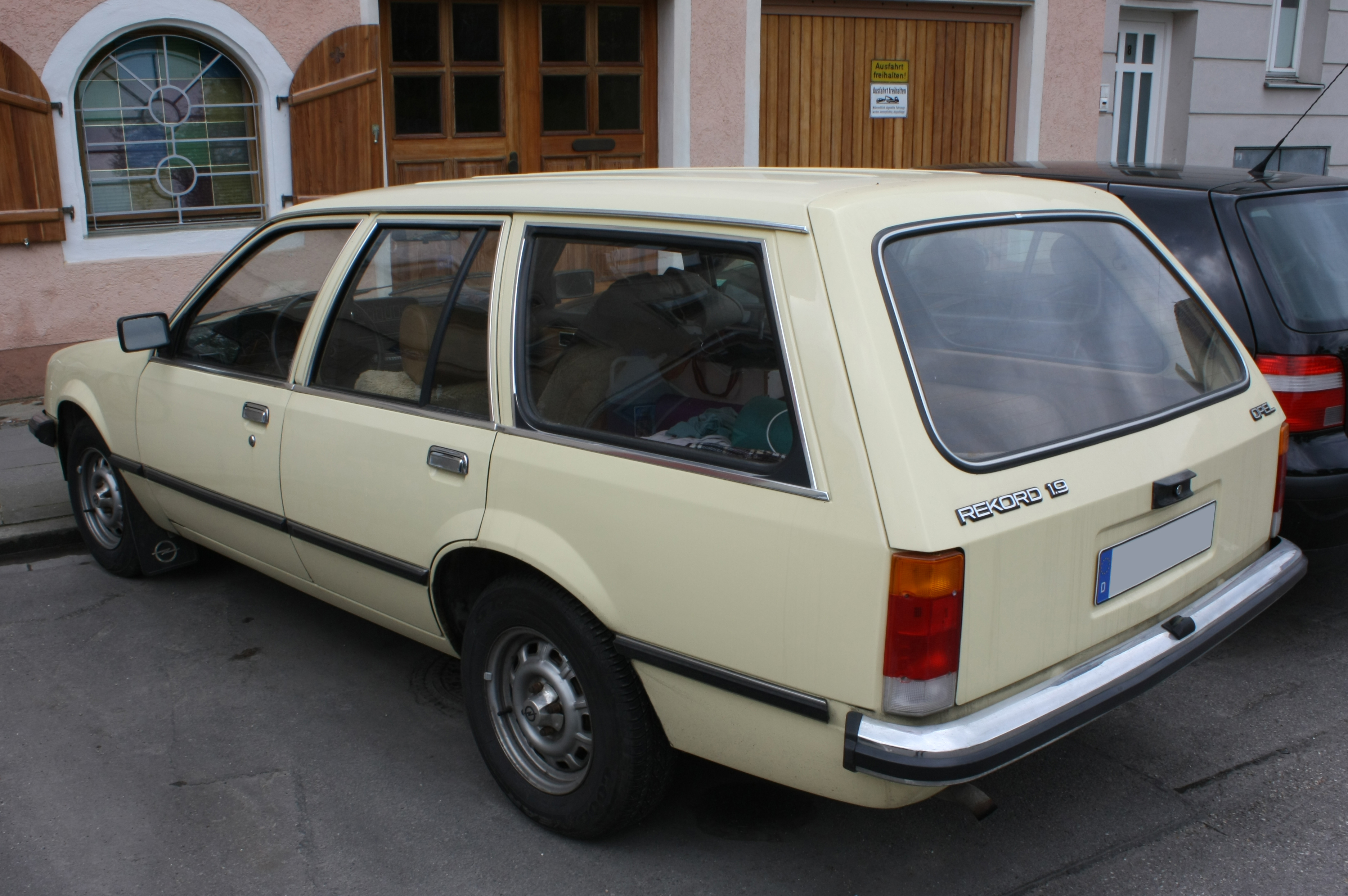 Opel Rekord E1 1.9N Station Wagon